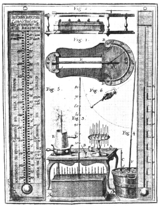 Thermometers, 18th century.